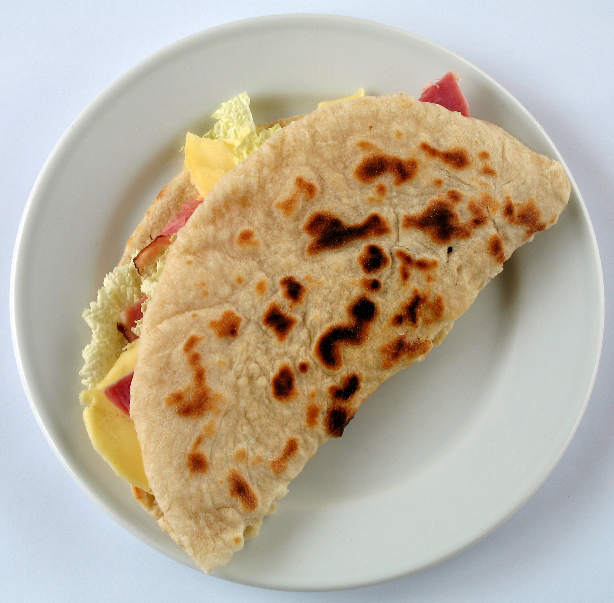 Piadina with ham and cheese